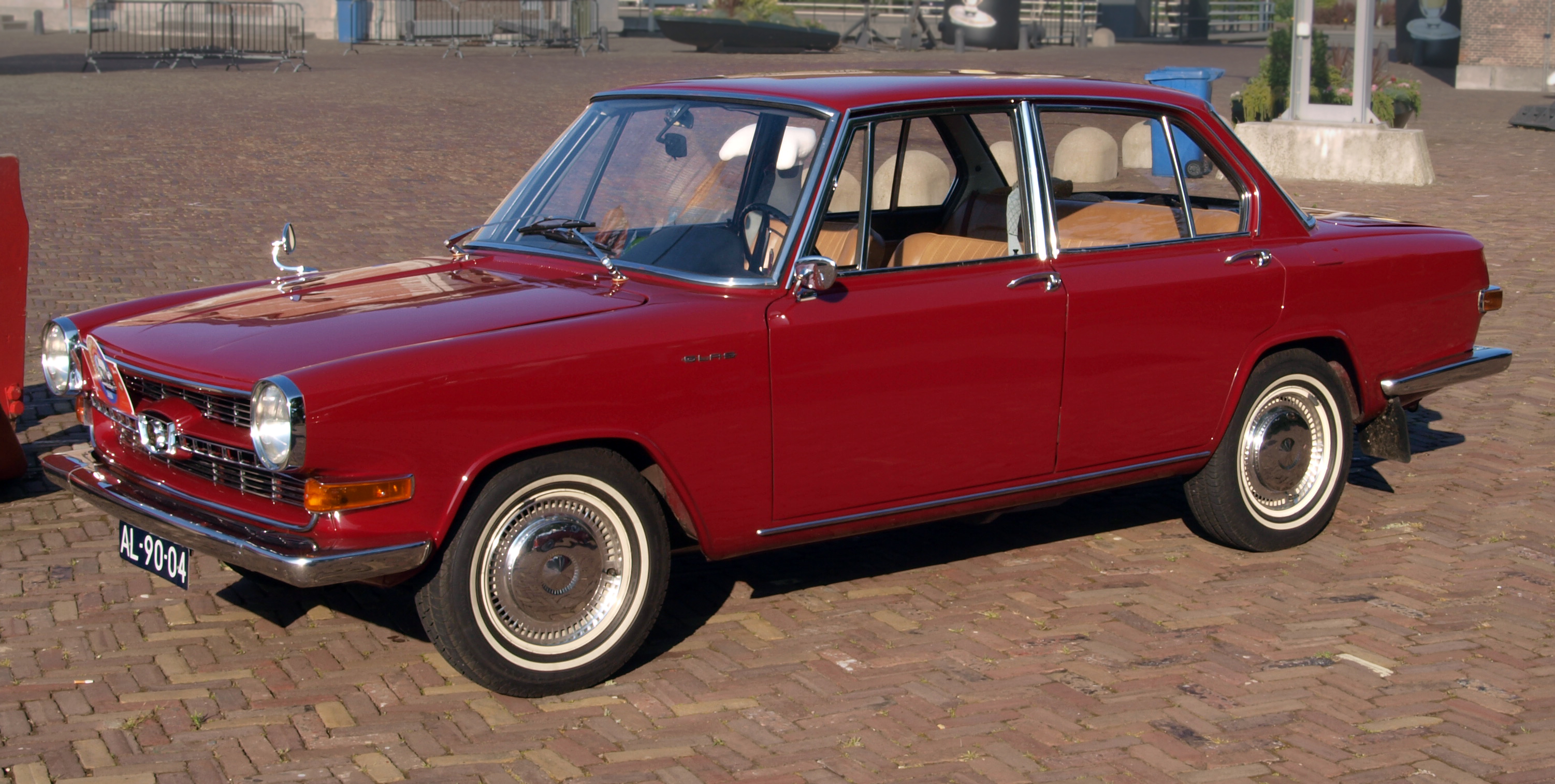 Photographed at Den Helder, The Netherlands. OLYMPUS DIGITAL CAMERA